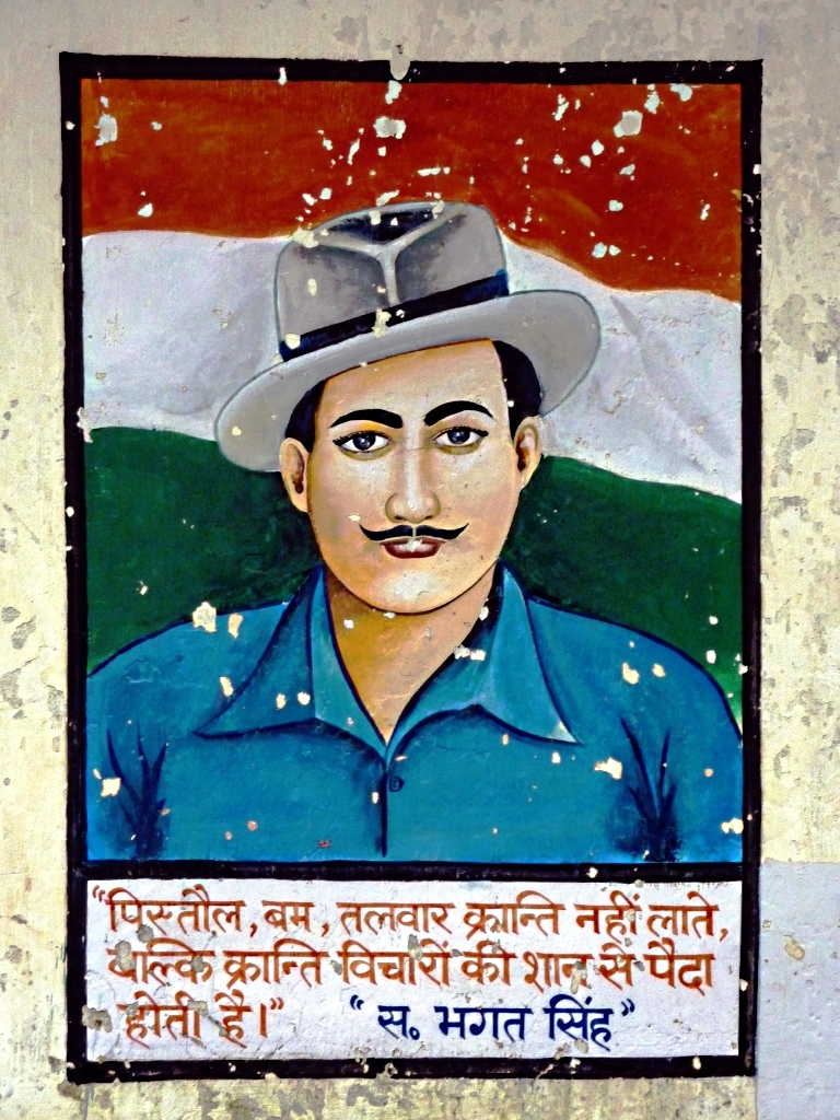 I took this photo on a trip to Rewalsar in 2010